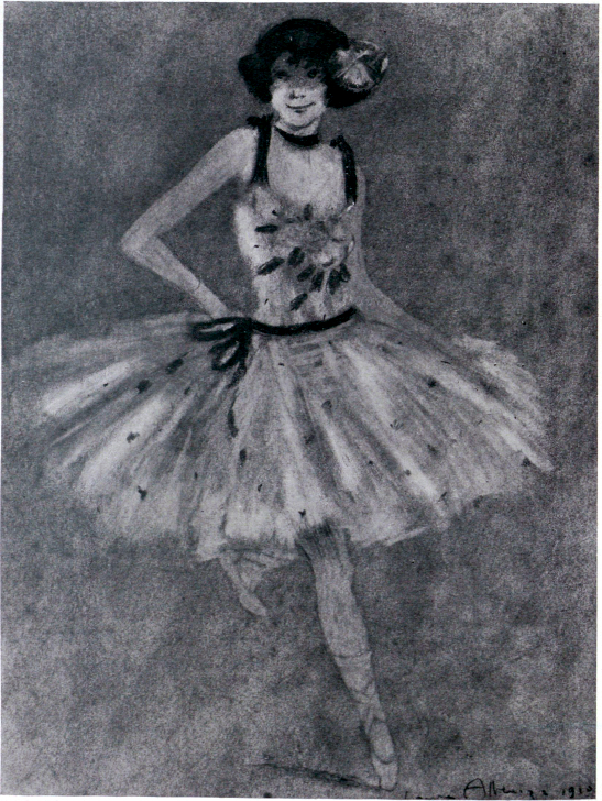 "La ballarina", painting by Laura Albéniz, from 1910, published in the magazine "Museum" (1916-1917).